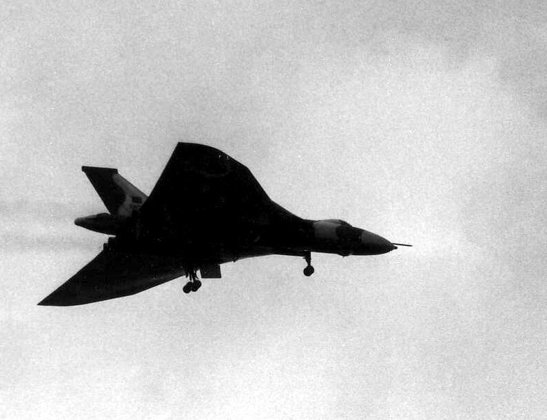 This rather grainy, poor quality picture was taken around dusk and is a Vulcan bomber making an approach to land at Ascension Island.